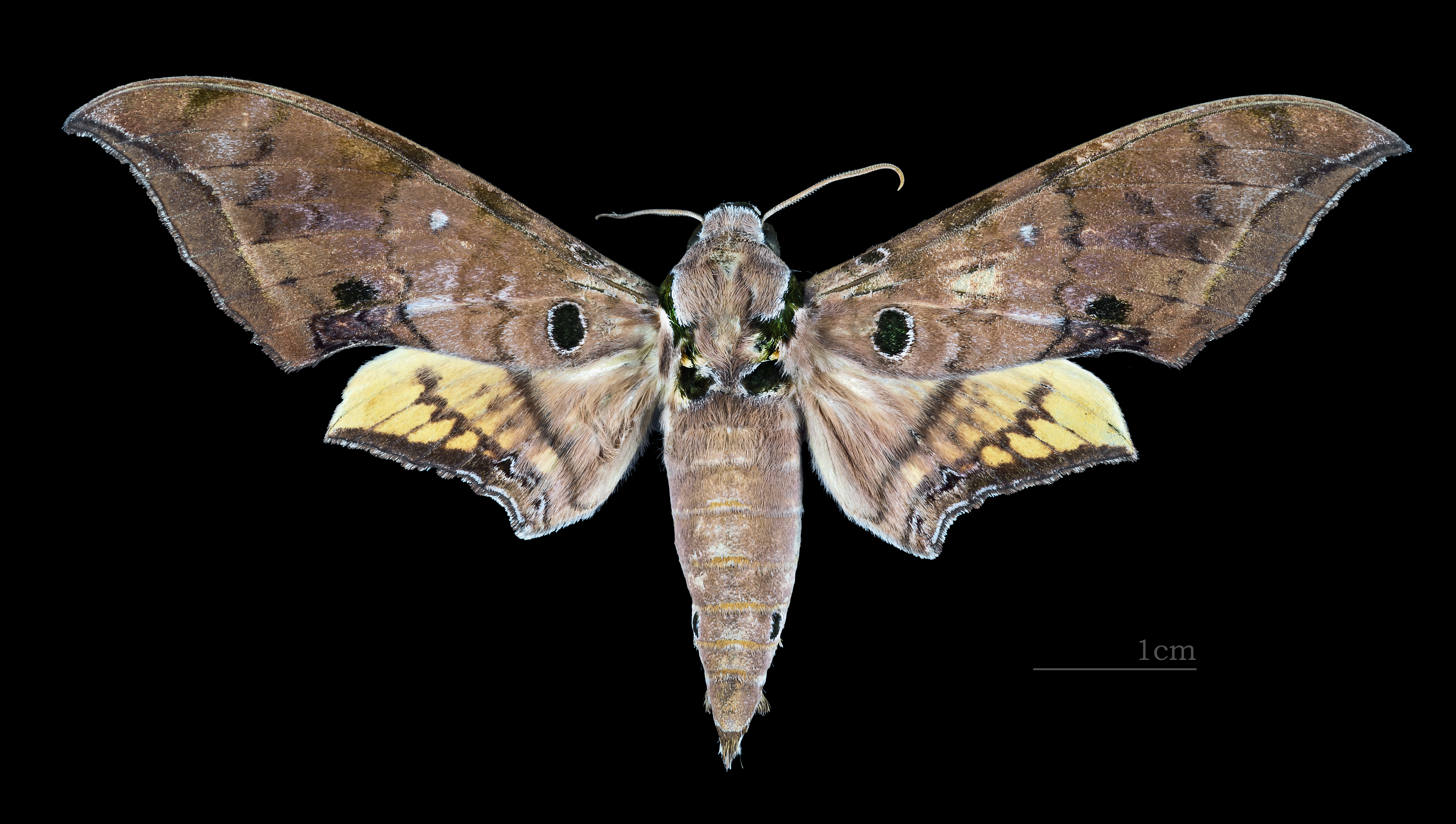 Ambulyx doherty - Dorsal side Collection of the Mathematician Laurent Schwartz